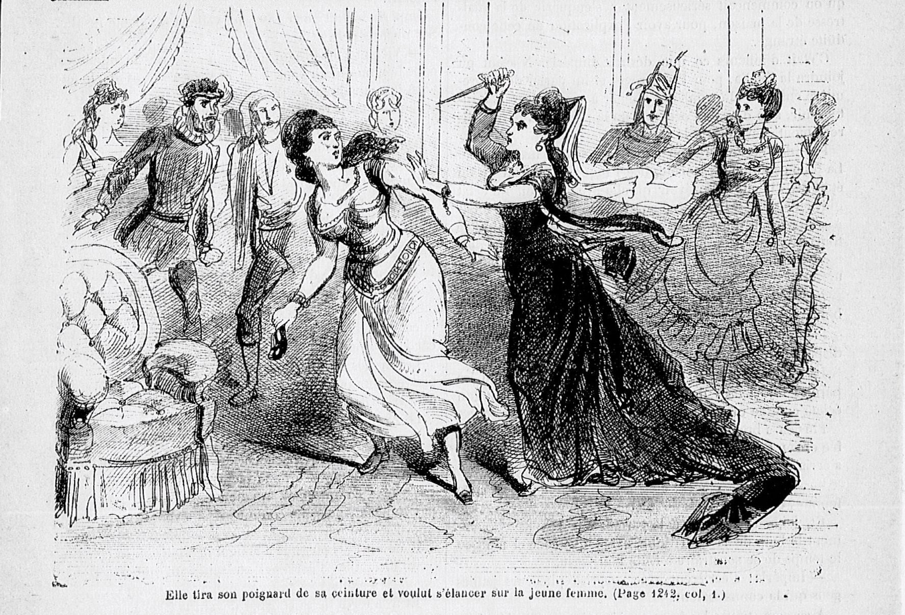 Chapter La slander from the novel Les amoureuses de Paris (1875) : « She drew her dagger from her belt and wanted to rush on the young woman ». Les amoureuses de Paris is a novel of manners and adventures, by Émile Mugnot de Lyden and Émile Richebourg, first published in 1875 in serial form in a periodical : Les romans du Jeudi with illustrations by Jean-Baptiste Humbert. In 1877, the work was published by Édouard Dentu in two volumes with the following subtitles : La belle Impéria and Ange et démon. In 1883, Les amoureuses de Paris was reissued in a single volume by Jules Rouff.